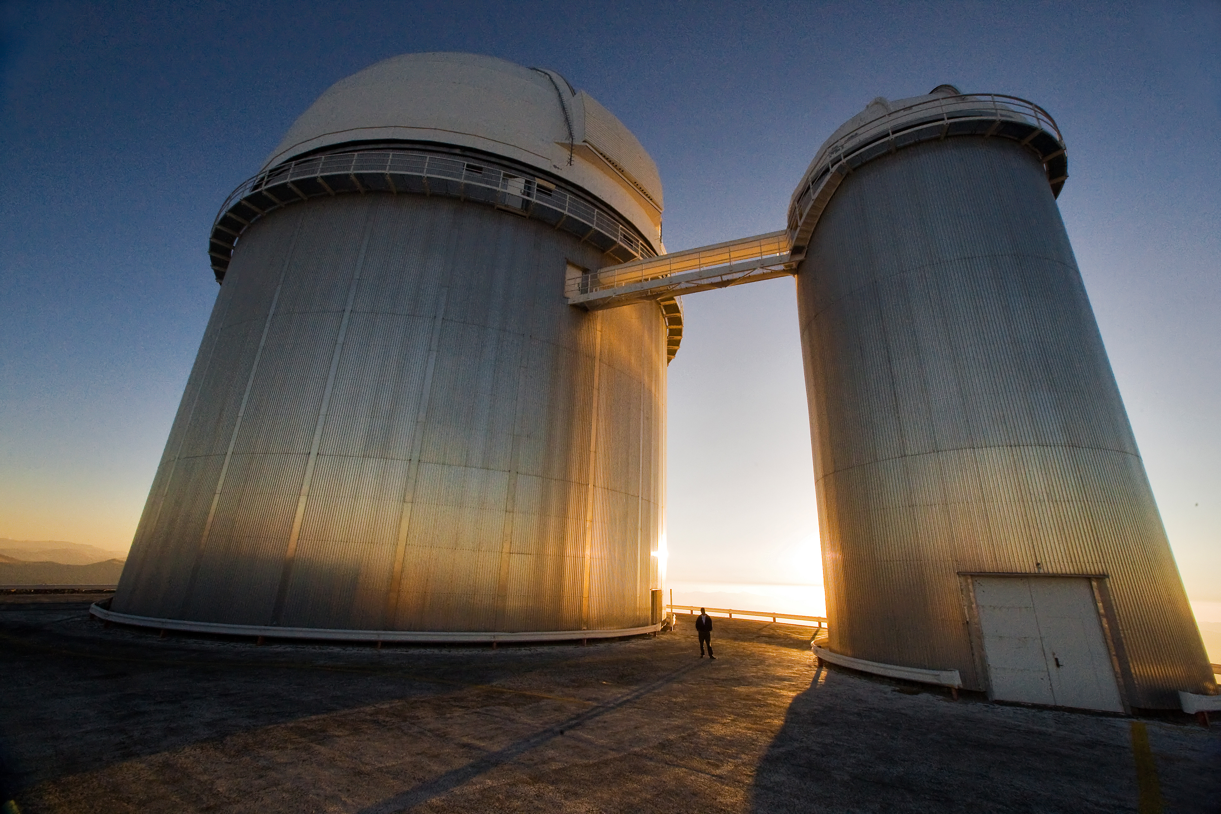 The ESO 3.6-metre telescope at ESO's La Silla observatory. La Silla, in the southern part of the Atacama desert of Chile was ESO's first observation site. The site is set 2400 metres above sea level, providing excellent observing conditions. ESO operates the 3.6-mere telescope, the New Technology Telescope (NTT), and the MPG/ESO2.2-metre telescope at La Silla. La Silla also hosts national telescopes, such as the Swiss 1.2-metre Leonhard Euler Telescope and the Danish 1.54-metre telescope.